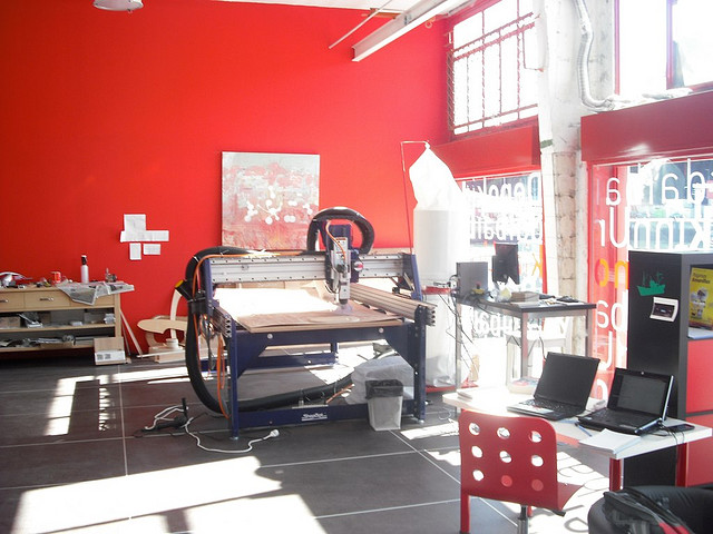 Bermeo Fab lab